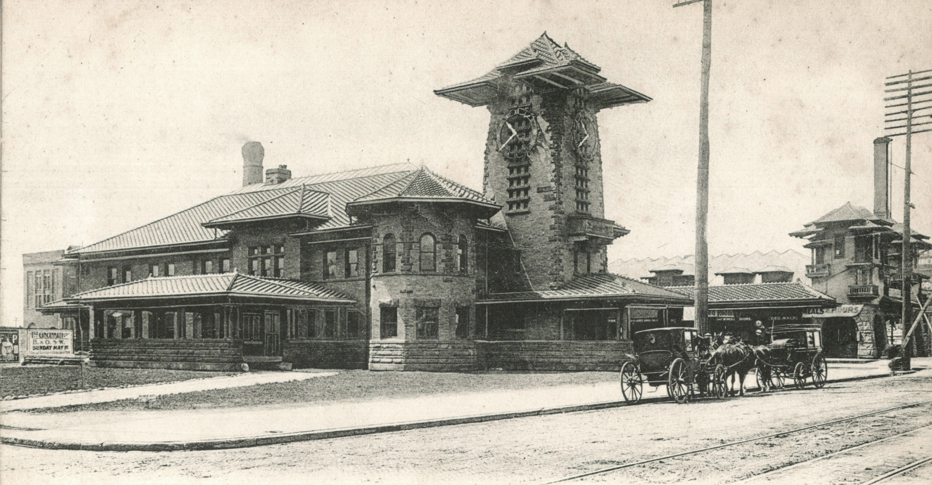 Toledo & Ohio station by the Macklin Hotel.